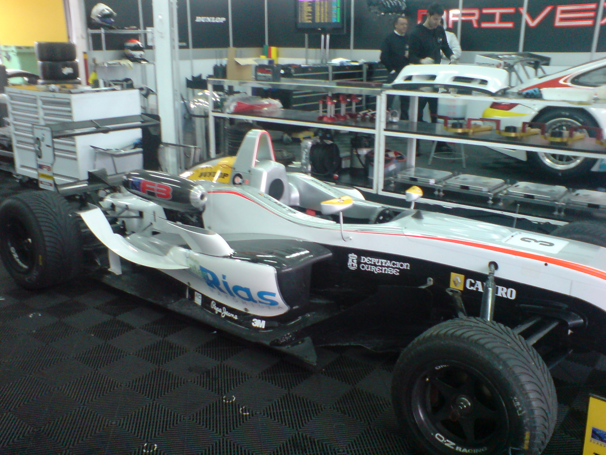 Drivex Car 2010